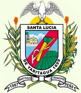 Peña Municipality shield (Yaracuy),Venezuela